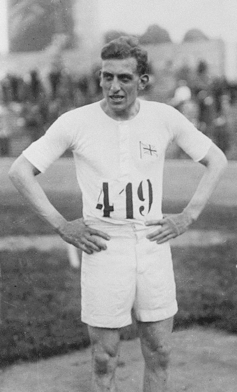 Harold Abrahams rests between events during the 1924 Olympic Games in Paris. Abrahams won the gold medal in the 100 metres in a time of 10.6 seconds and a silver medal in the 4 x 100 metres relay.